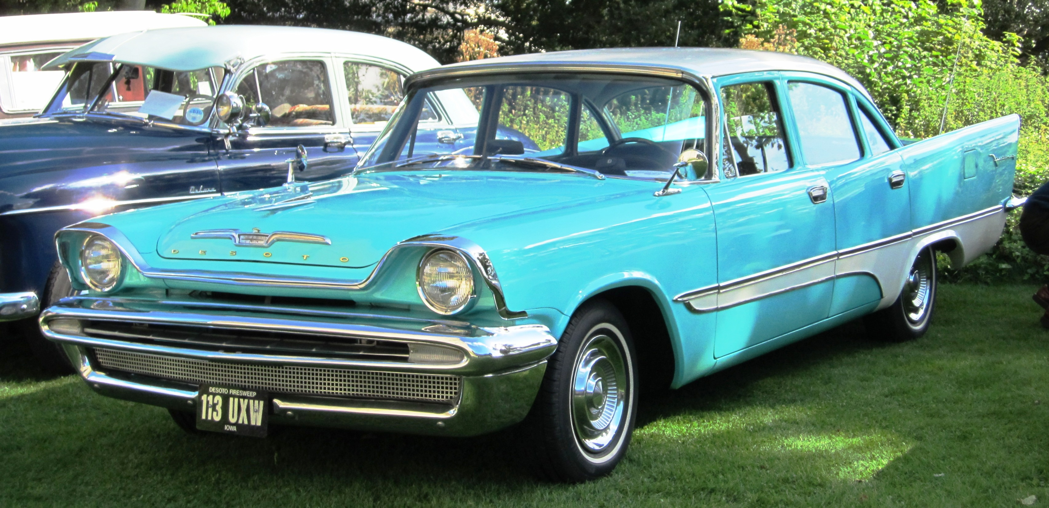 De Soto Firesweep sedan 1957